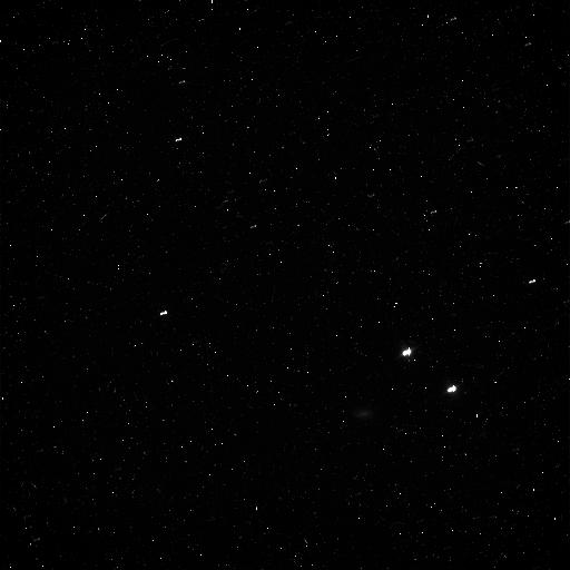 N00161965.jpg was taken on August 27, 2010 and received on Earth August 30, 2010. The camera was pointing toward GREIP, and the image was taken using the CL1 and CL2 filters. This image has not been validated or calibrated. A validated/calibrated image will be archived with the NASA Planetary Data System in 2011.